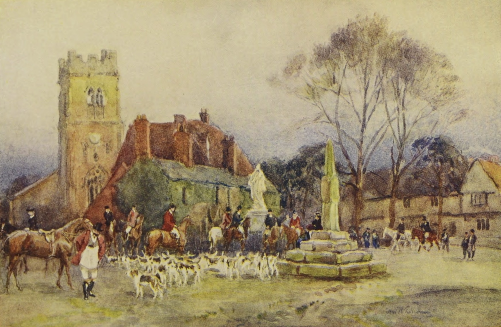 Dunchurch